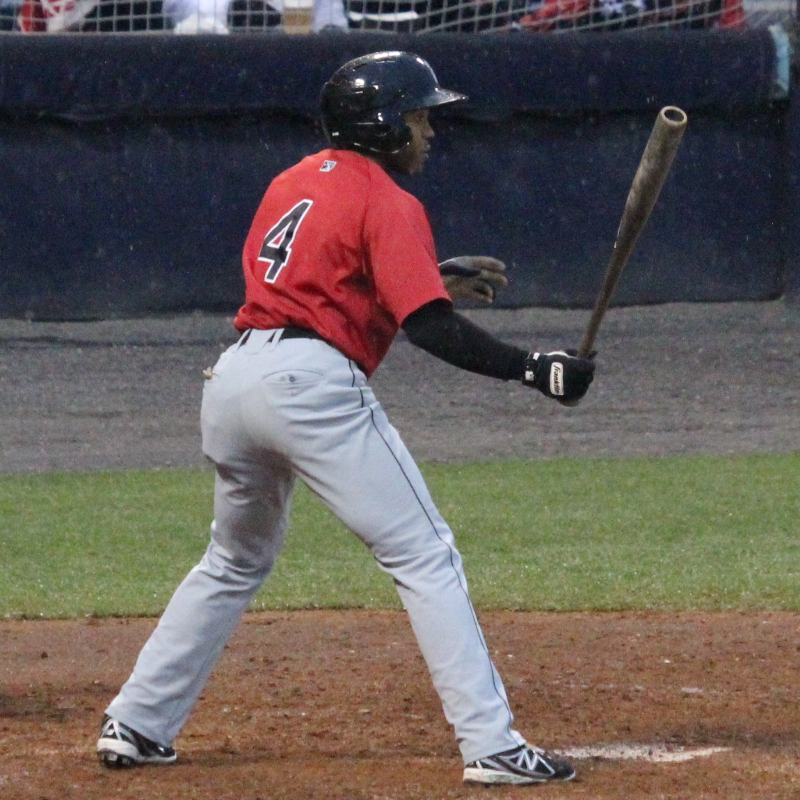 Antoan Richardson